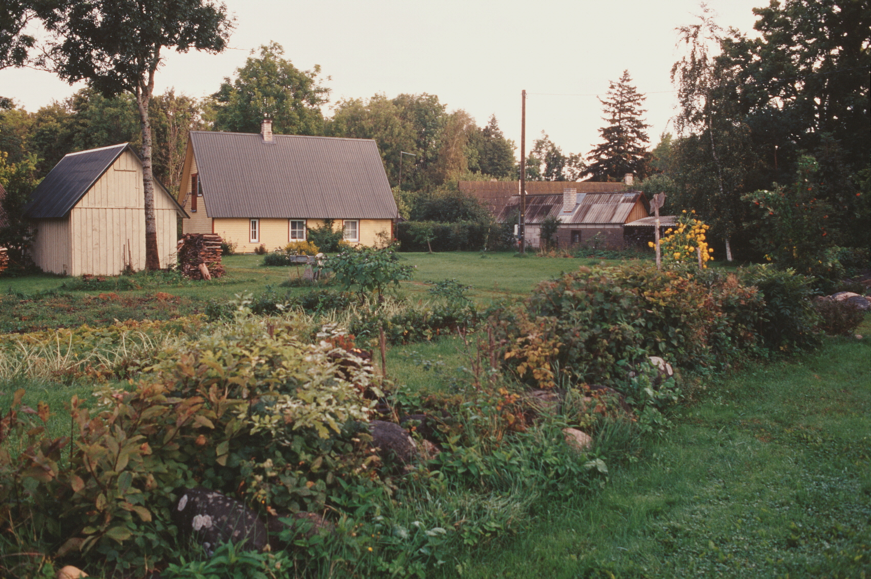 The sorroundings of a farmhouse on Kihnu island in Estonia